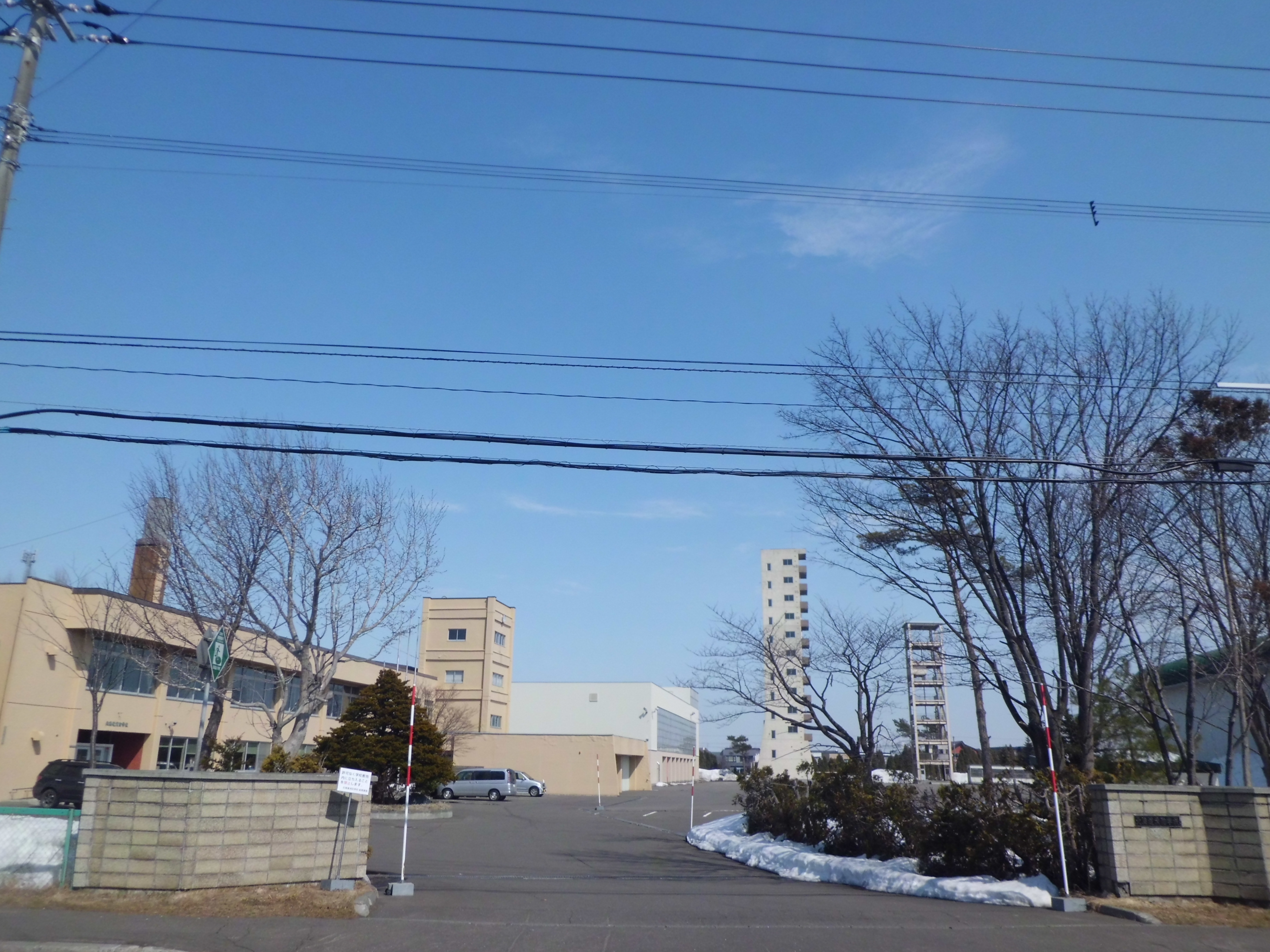 Hokkaido Fire Academy in Ebetsu.